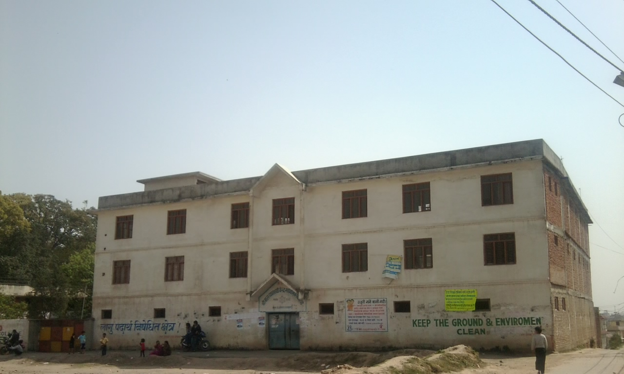 A school situated in Sifal, Kathmandu.